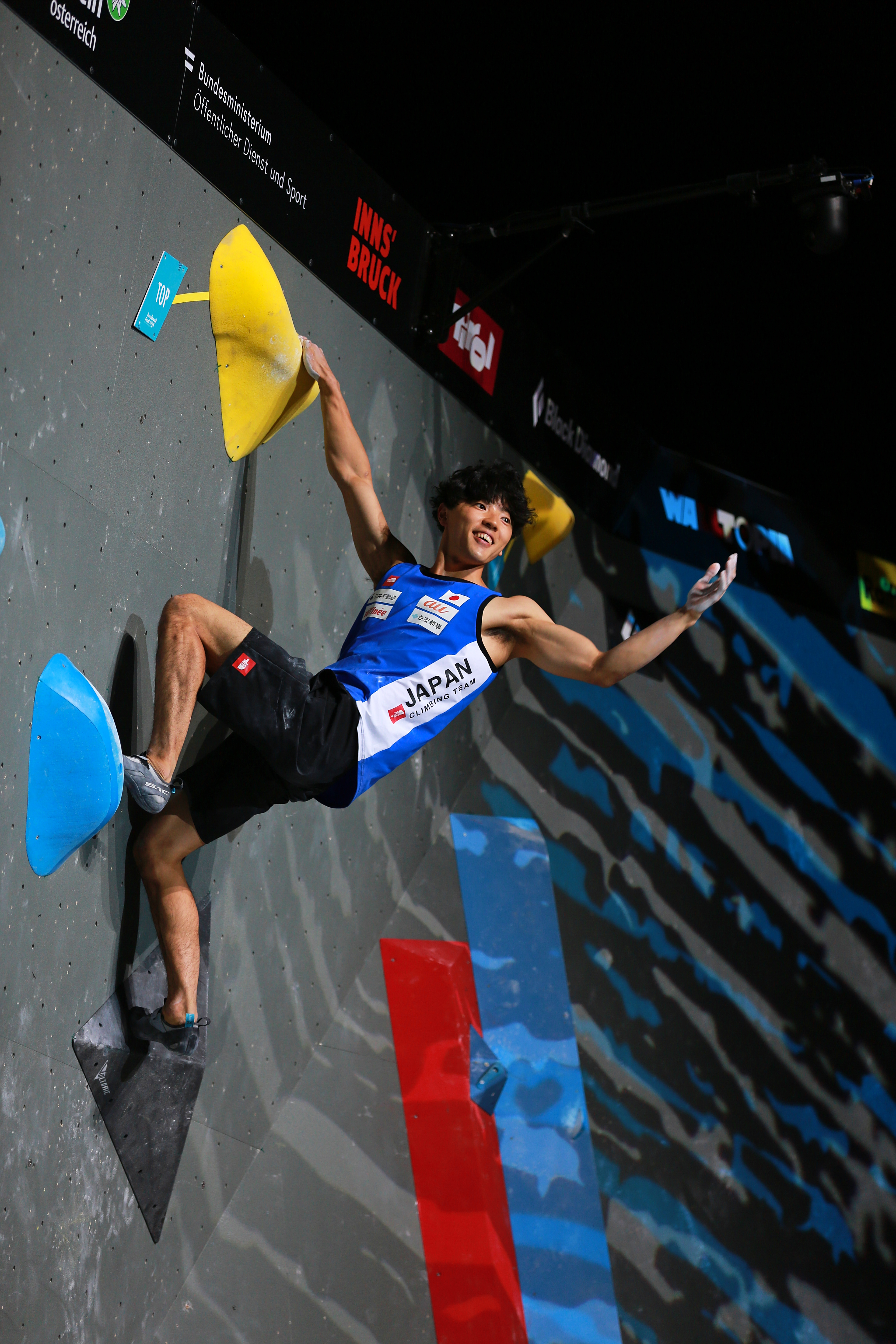 Climbing World Championships 2018 Combined Final Fujii